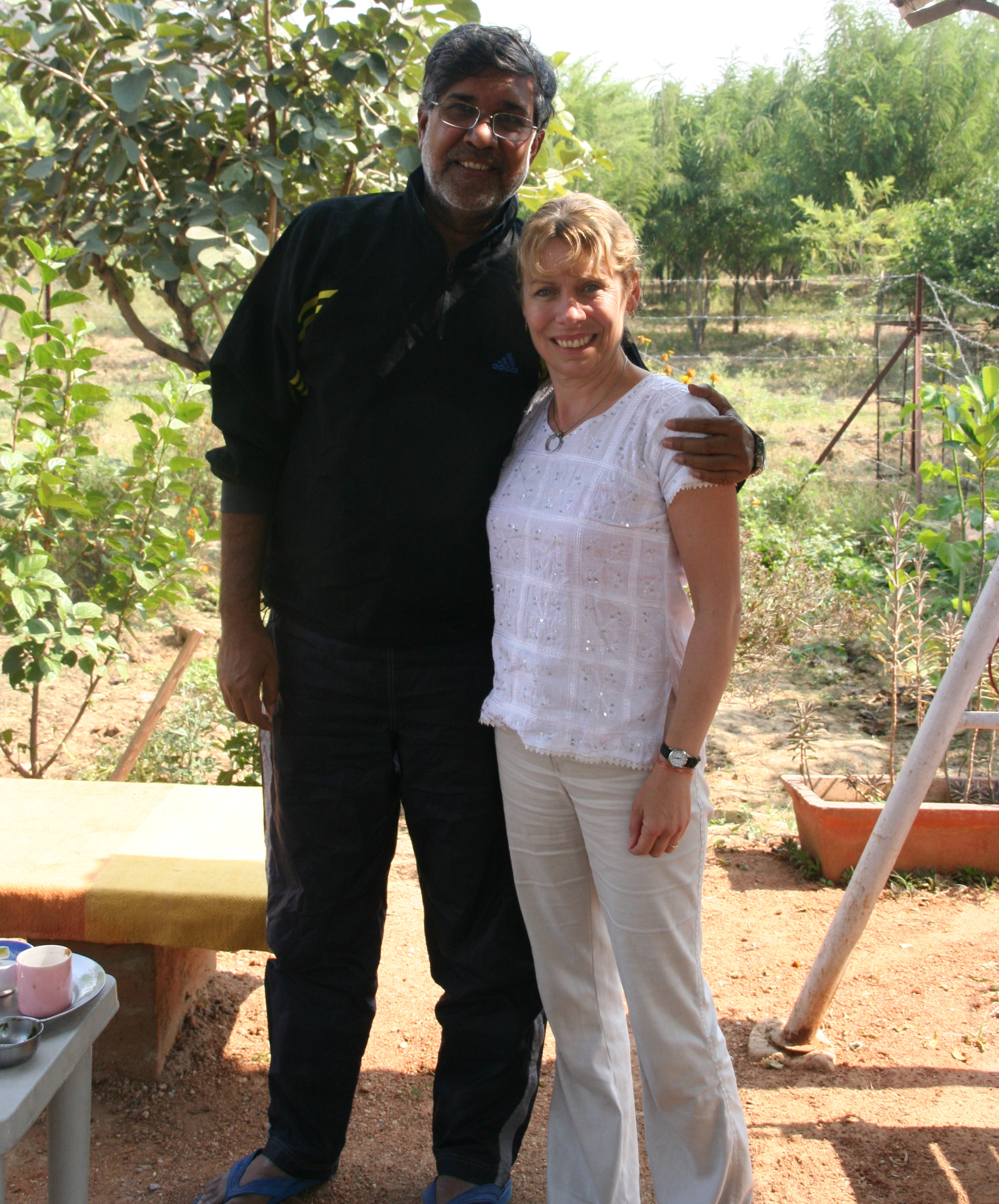 Nobel Peace Prize winner, Kailash Satyarthi, and British portrait artist, Claire Phillips, pictured at the Bal Ashram Rehabilitation Centre in October 2011